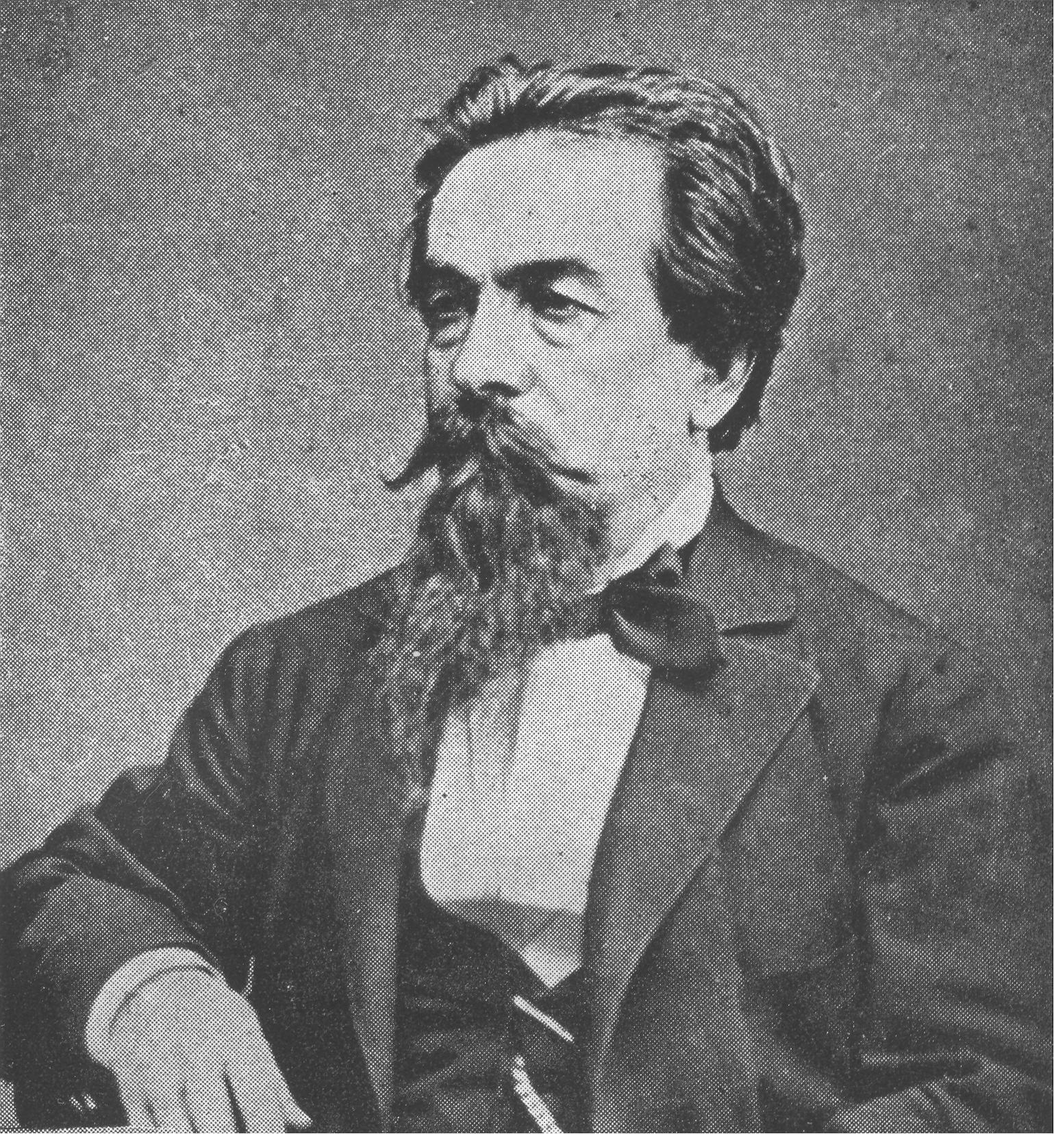 František Pivoda (1824-1898), musical critic. A photograph from the 1870s.